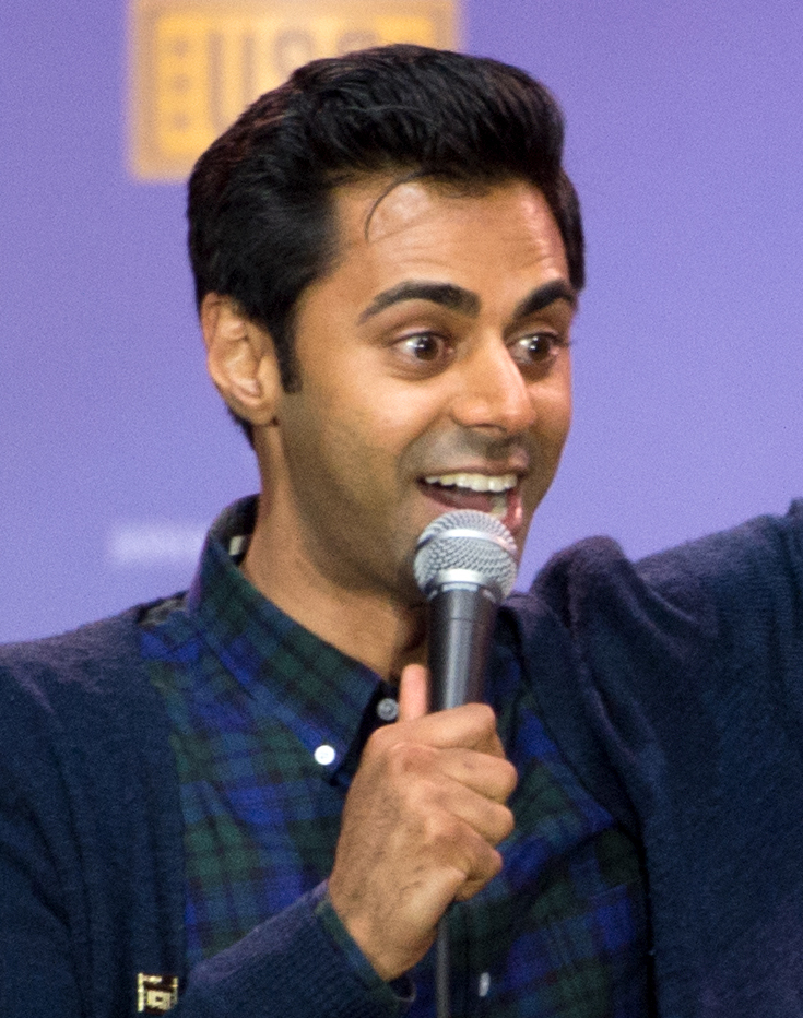 Comedian Hasan Minhaj performs during the comedy show in celebration of the 75th anniversary of the USO and the 5th anniversary of Joining Forces at Joint Base Andrews in Washington, D.C. May 5, 2016. Joining Forces is an initiative to help military, veterans and their families founded by Dr. Jill Biden and First Lady Michelle Obama.